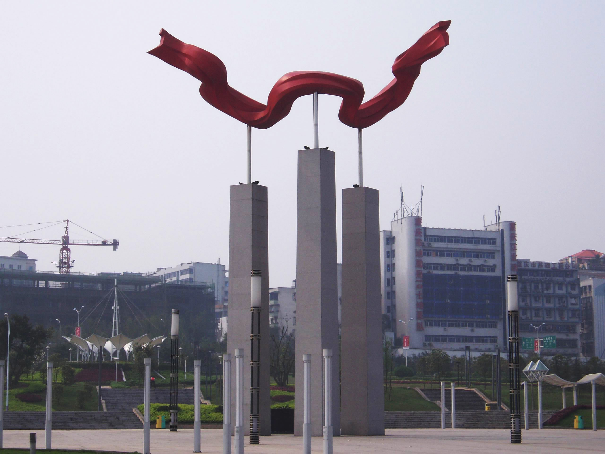 Street sculpture in Chongqing, China